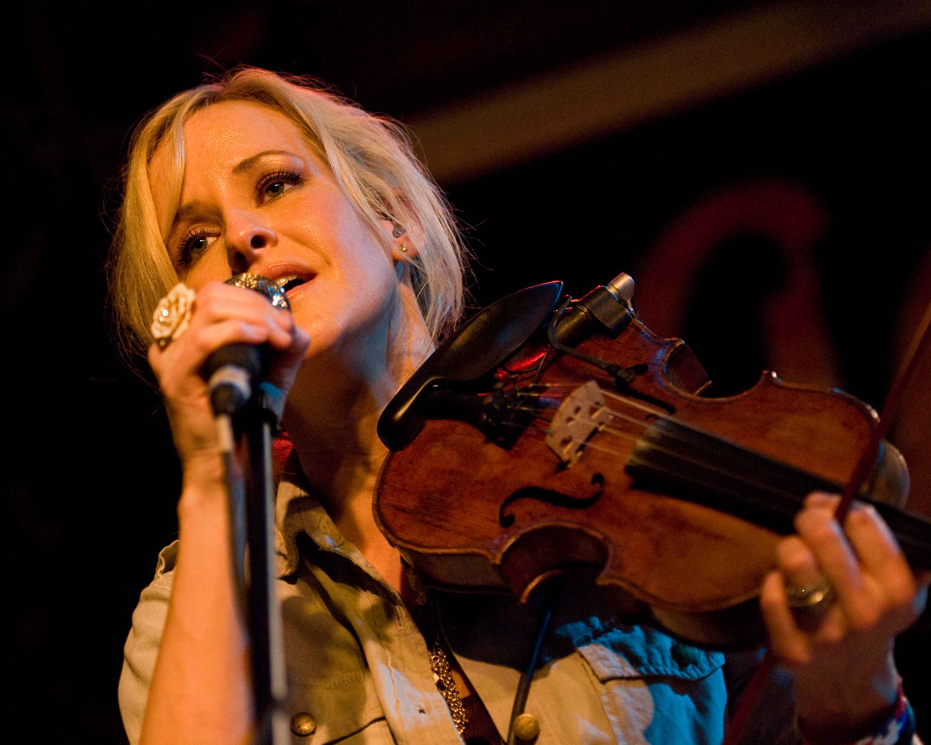 Martie Maguire of the Court Yard Hounds performing at Antone’s, SXSW, Austin, Texas 3-18-10